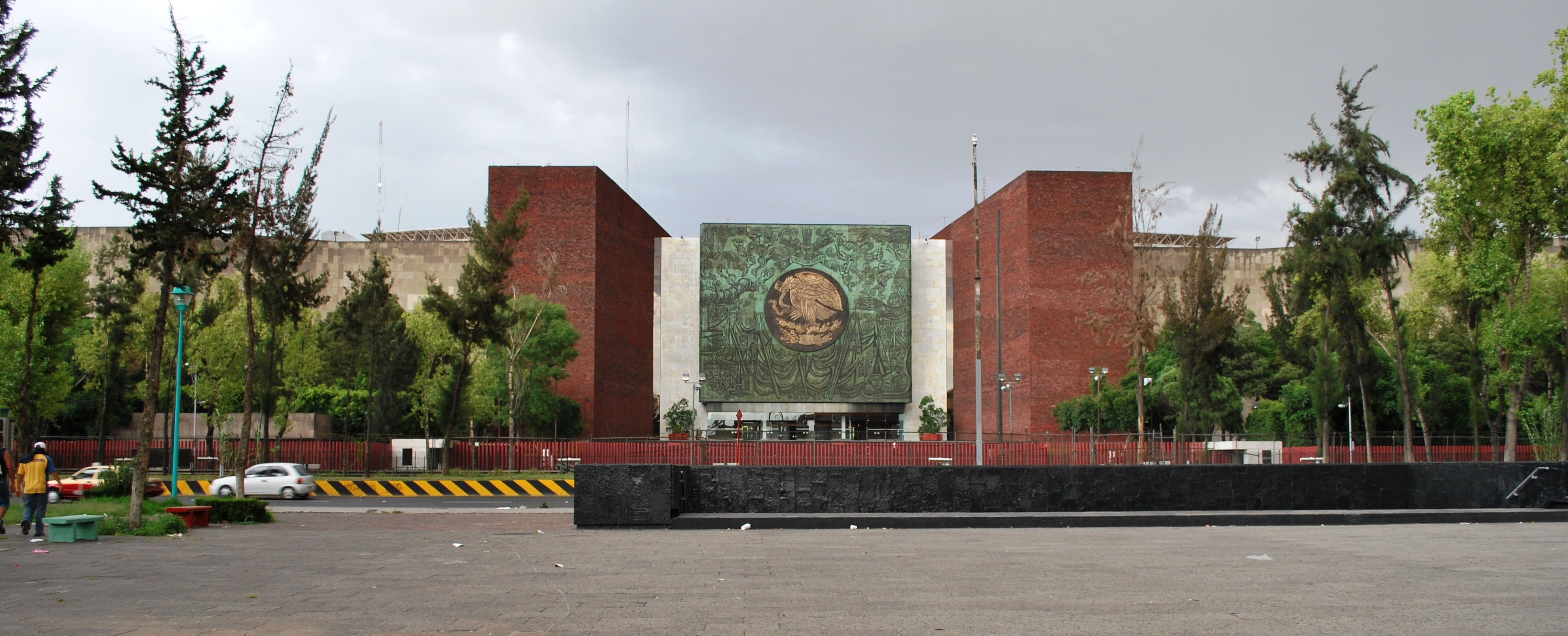 The Legislative Palace of the Republic of Mexico located on Congreso de la Union Ave. in Mexico City.